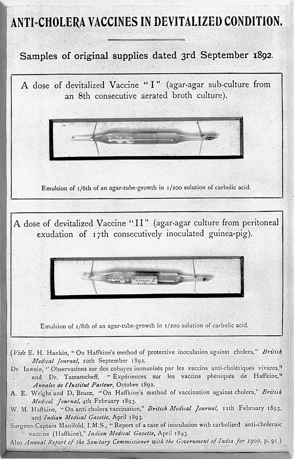 Anti-Cholera vaccines in devitalised condition: originals dated 3 Sept.1892. General Collections Keywords: prophylaxis; vaccinations; Cholera